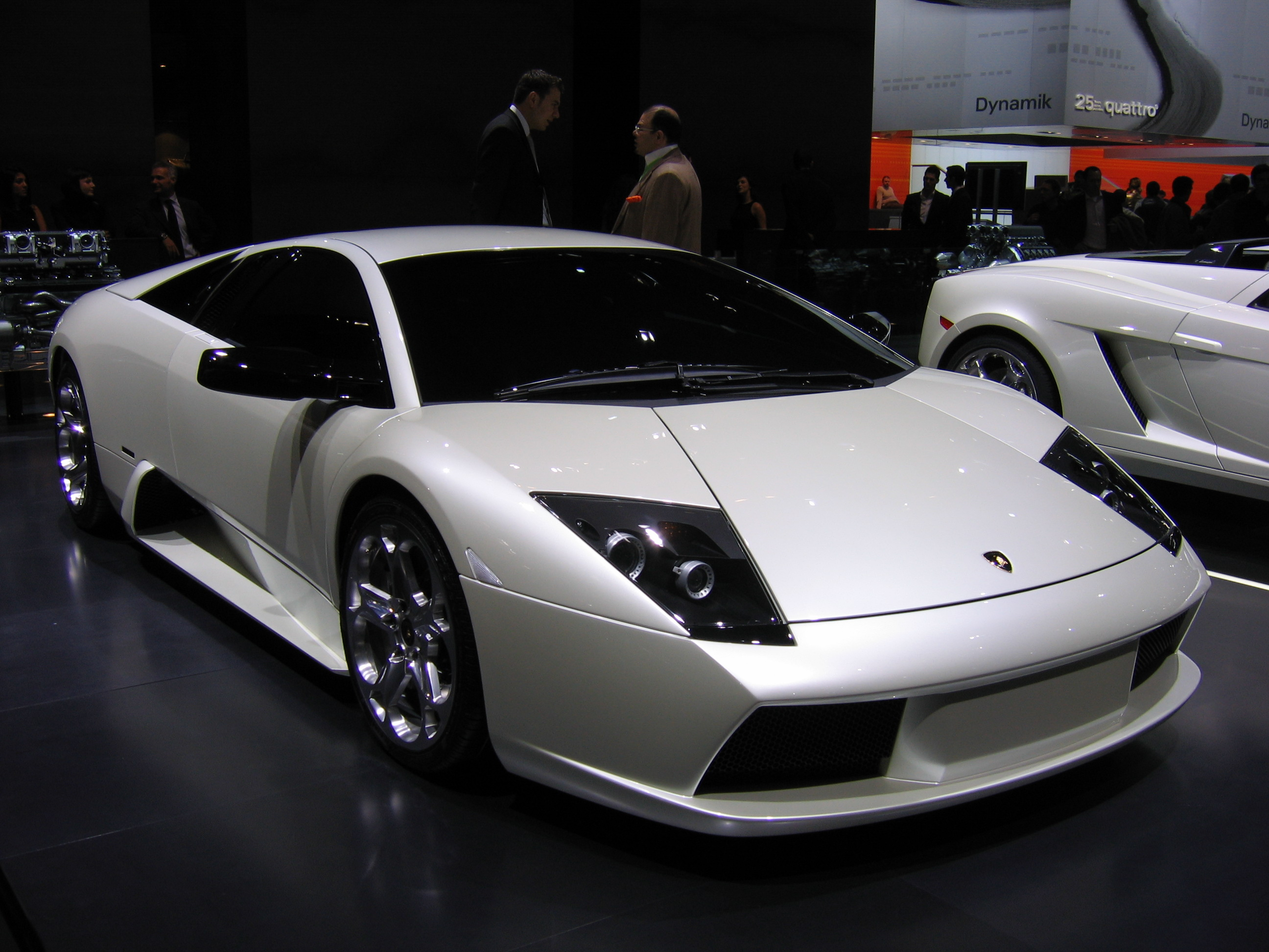 Geneva Motor Show 2005